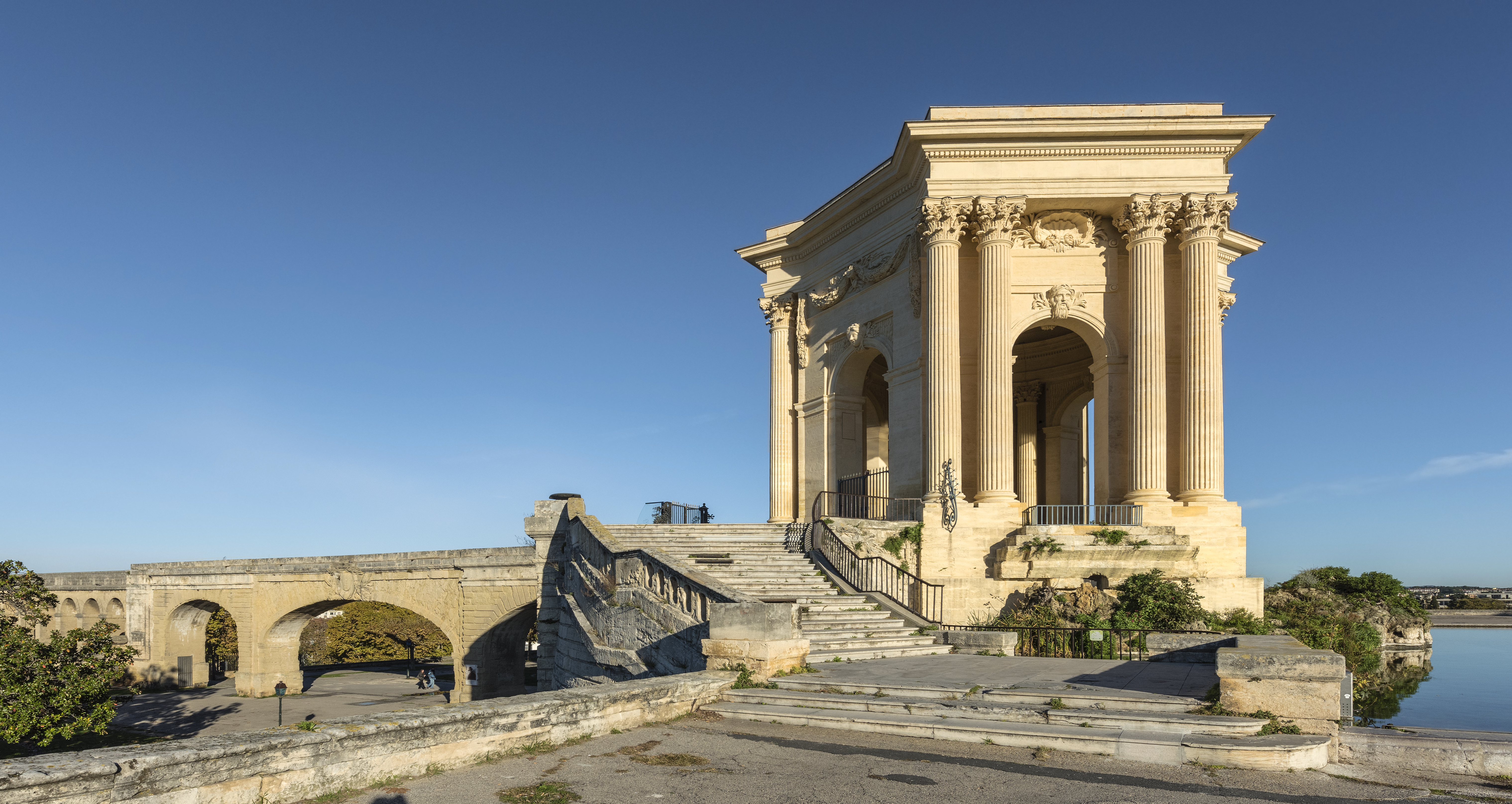 Château d'eau du Peyrou (Peyrou Water Tower, 1689).Montpellier, Hérault, France. This building is en partie classé, en partie inscrit au titre des Monuments Historiques. It is indexed in the Base Mérimée, a database of architectural heritage maintained by the French Ministry of Culture, under the references PA00103609 and IA34000346 .